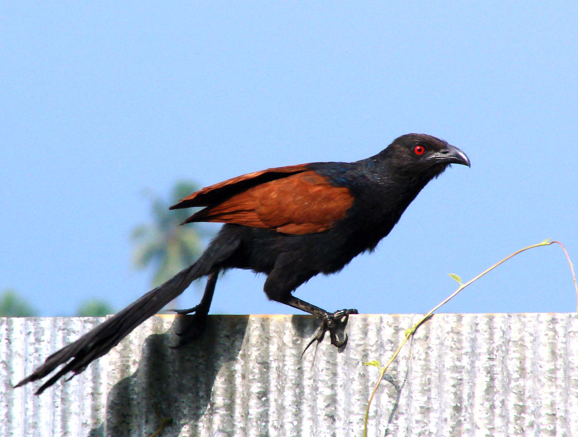 Greater Coucal Centropus sinensis, Dharga Town, Sri Lanka